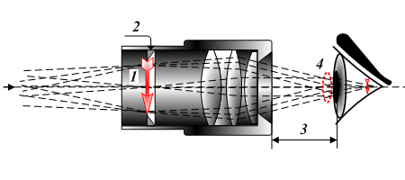 Formation of the exit pupil in an eyepiece.